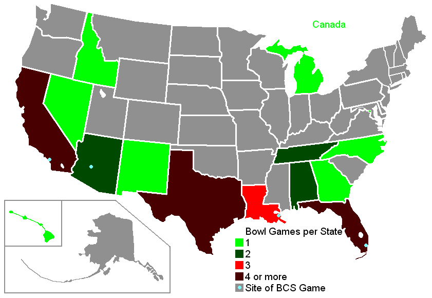 derived from :Image:BlankMap-USA-states.jpg; map of states with 2008-09 NCAA football bowl games schools (and their division)